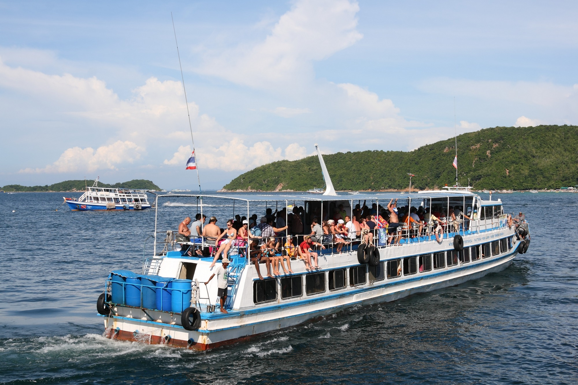 Pattaya-Koh Larn ferry